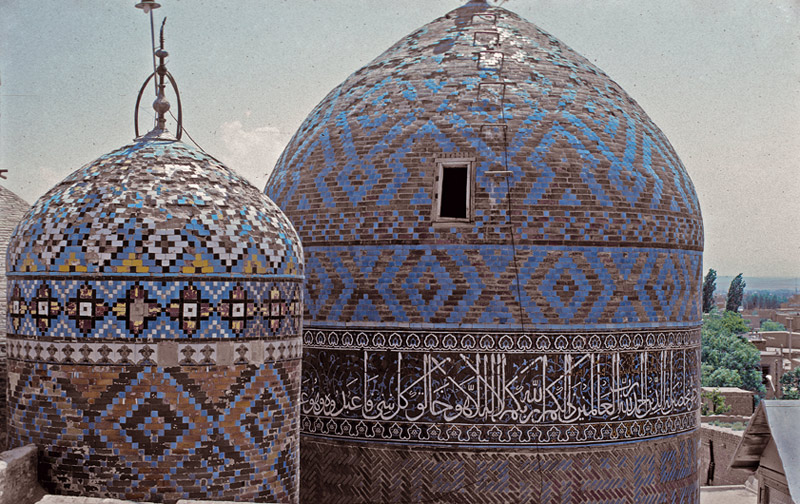 The mausoleums of Safi-ad-din Ardabili, sheikh of Ardabil are an ancient monument, located in Ardabil.